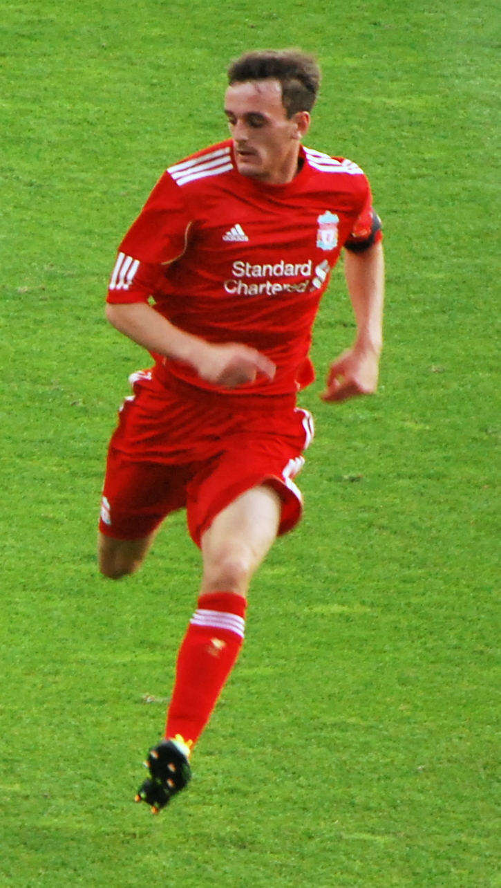 Jack Robinson during pre-season friendly Vålerenga v. Liverpool on 1st August 2011 at Ullevål. Result: 3-3.